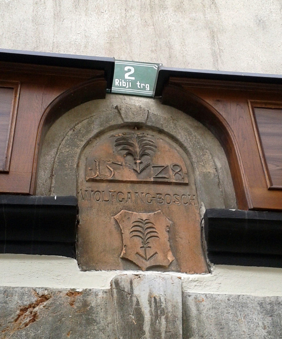 The plaque above the portal of the house Fish Square 2 in Ljubljana (the capital of Slovenia). It bears the coat of arms of Wolfgang Bosch, its owner, and the inscription of his name as well as the year of construction, 1528. This is the oldest dated house in Ljubljana.